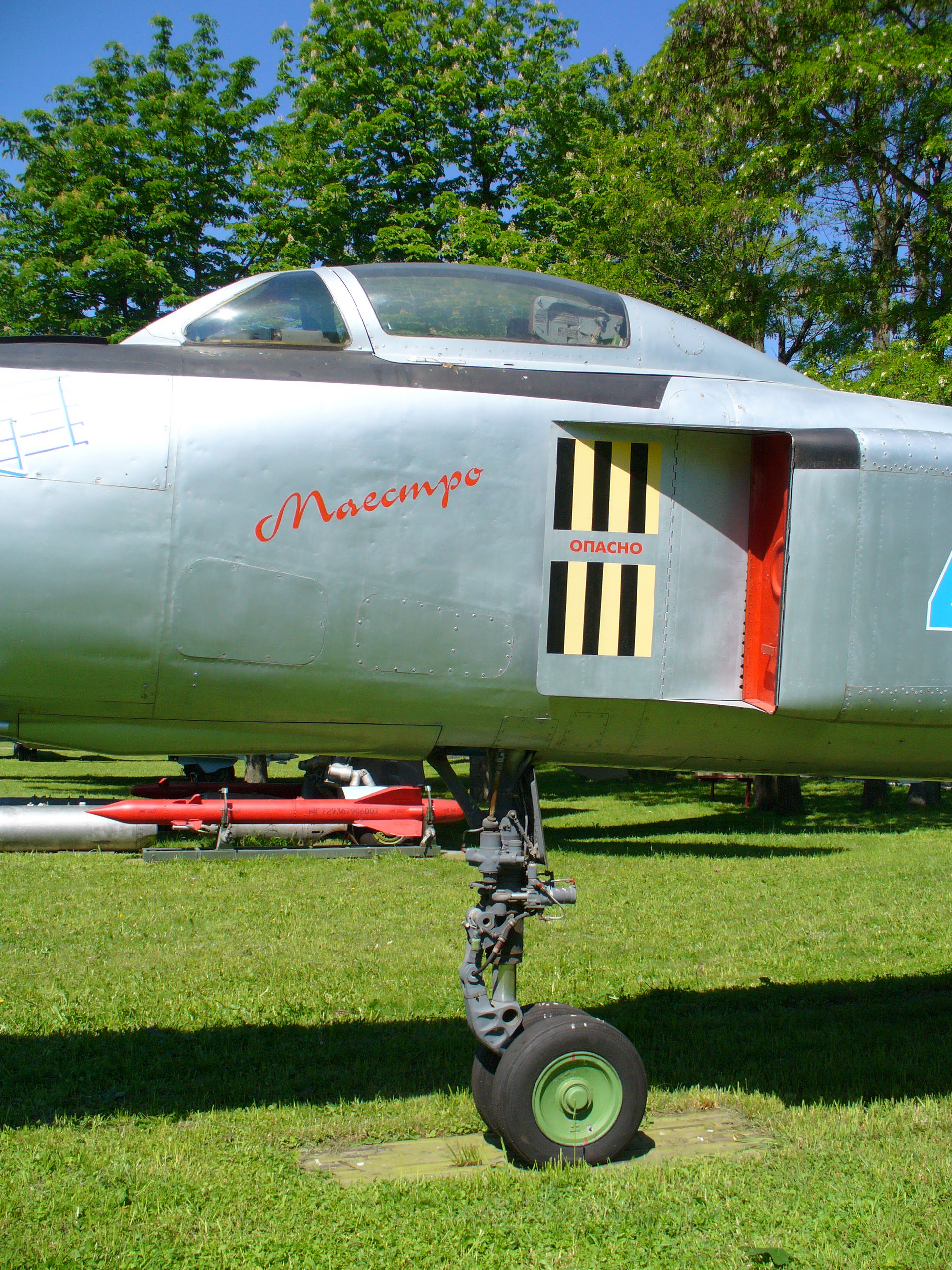 The Sukhoi Su-15TM (NATO reporting name "Flagon-F"), a Soviet interceptor aircraft. Has personal names "Leonid Bykov" and "Maestro" in memory of the Soviet actor Leonid Bykov. Ukrainian Air Force Museum in Vinnitsa.